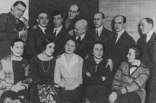 Standing (left to right): Mayakovsky, Osip Brik, Boris Pasternak, Sergei Tretyakov, Viktor Shklovsky, Lev Grinkrug, O. M. Beskin, P. V. Neznamov. Sitting: Elsa Triolet, Lilya Brik, R. S. Kushner. E. V. Pasternak, Olga Tretyakova.